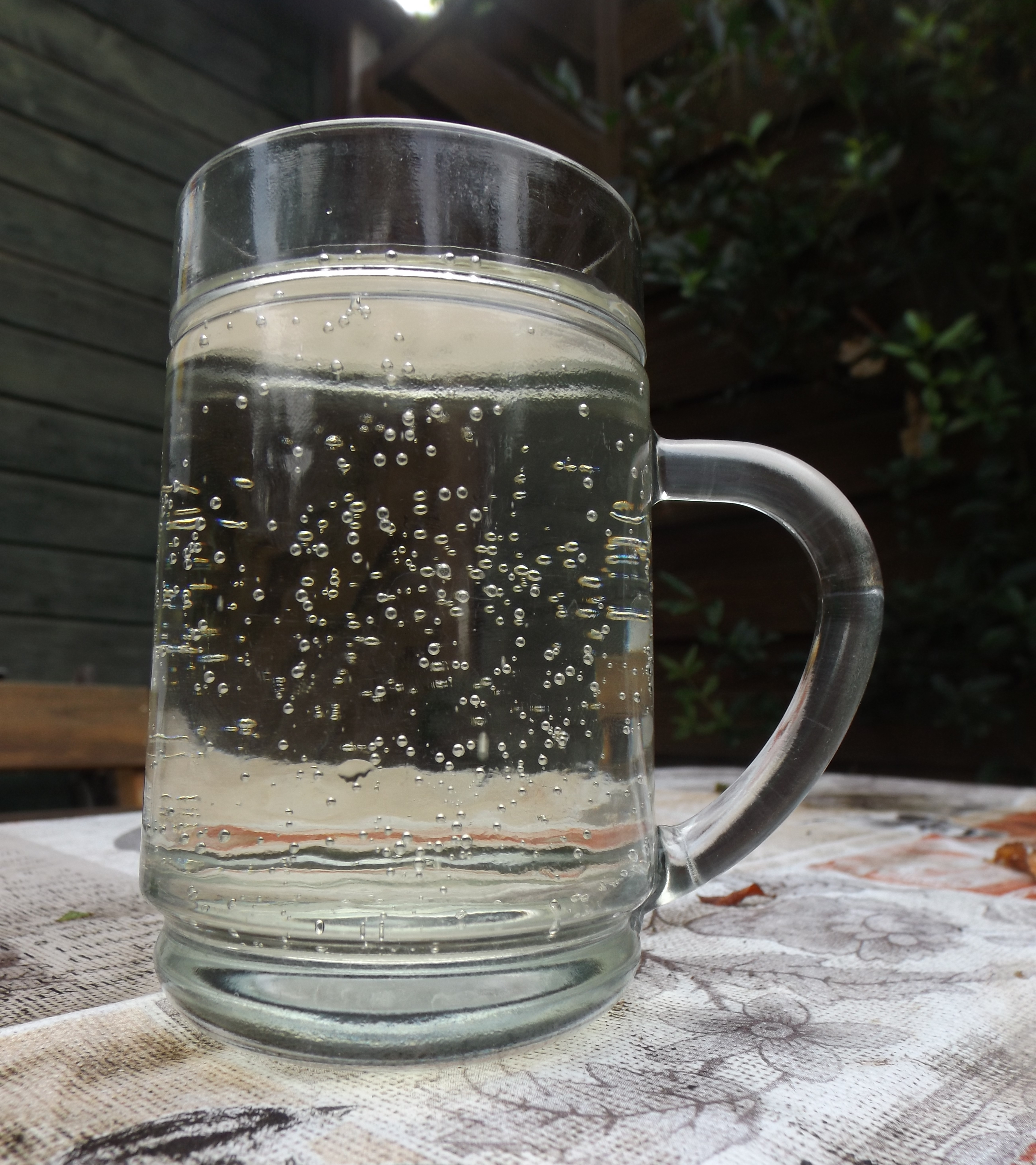 White spritzer in Lower Austria, in the southern surroundings of Vienna